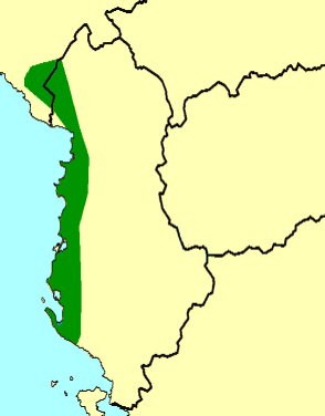 Distribution of Pelophylax shqipericus